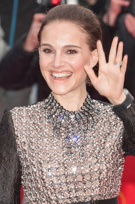 Natalie Portman (as executive producer) Premiere of the movie "The Seventh Fire" at the Haus der Berliner Festspiele.